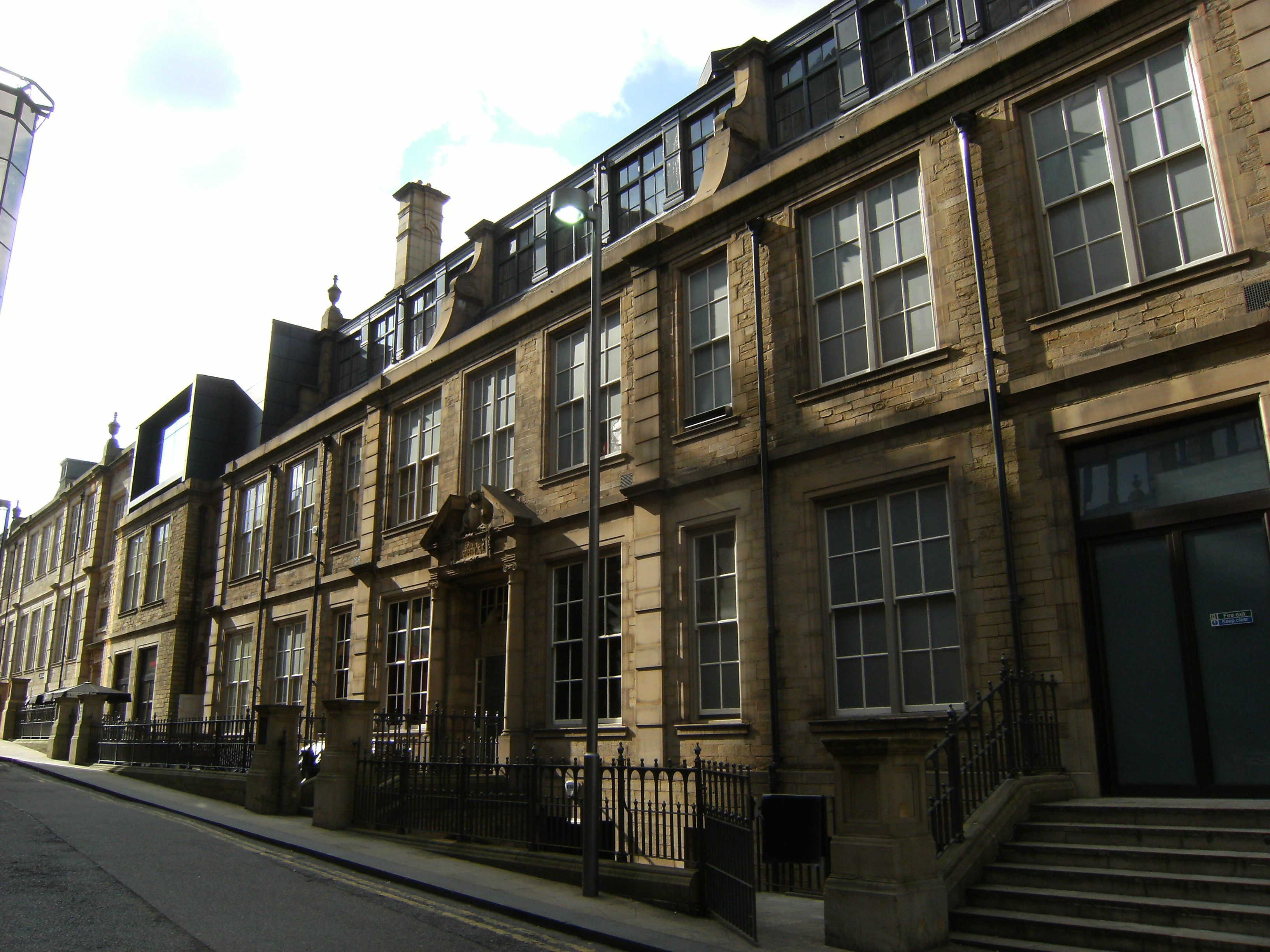 Former Sheffield City Grammar School, on Orchard Lane. Now part of the Leopold Square development.